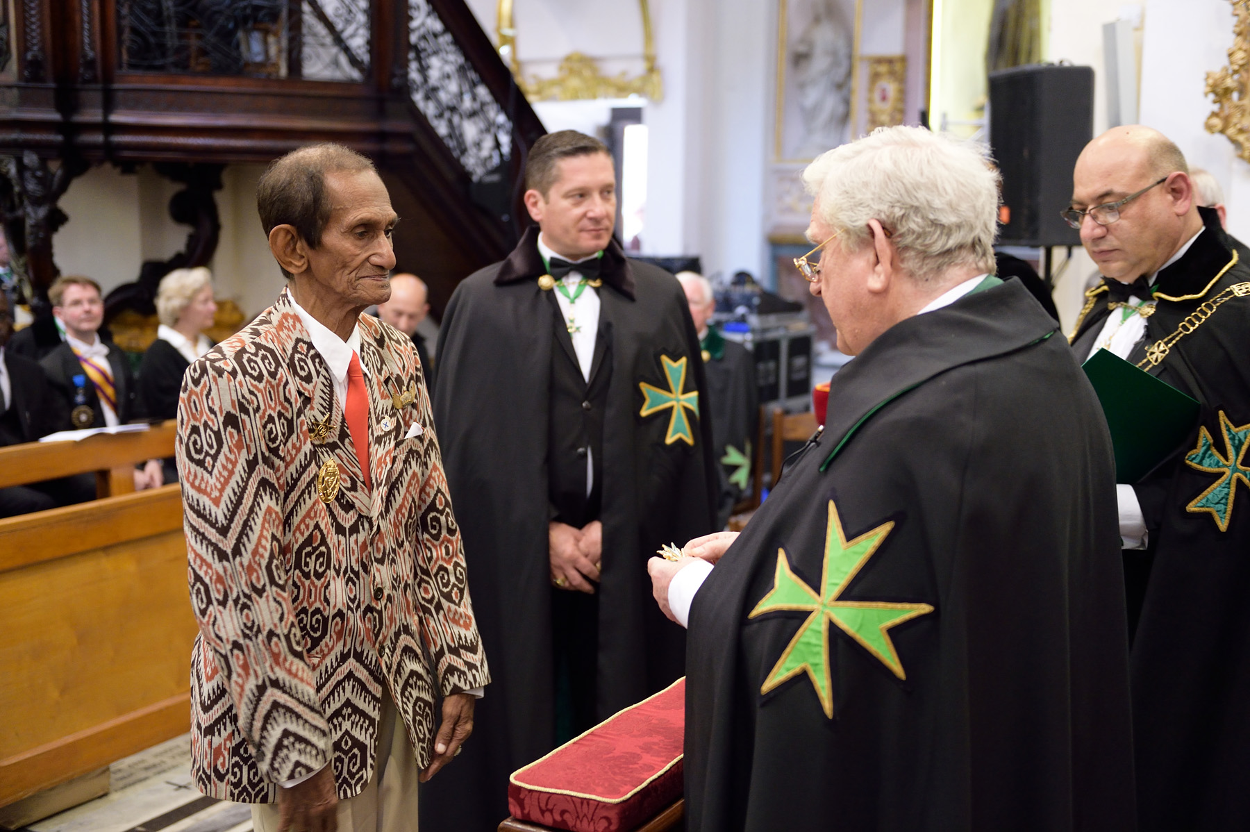 Dom Leopold Nisnoni, Rajah of Kupang and Grand Prior of Indonesia of the Hospitaller Order of Saint Lazarus